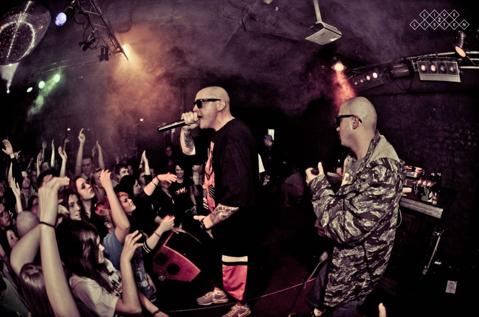 Polish hip-hop group WSRH